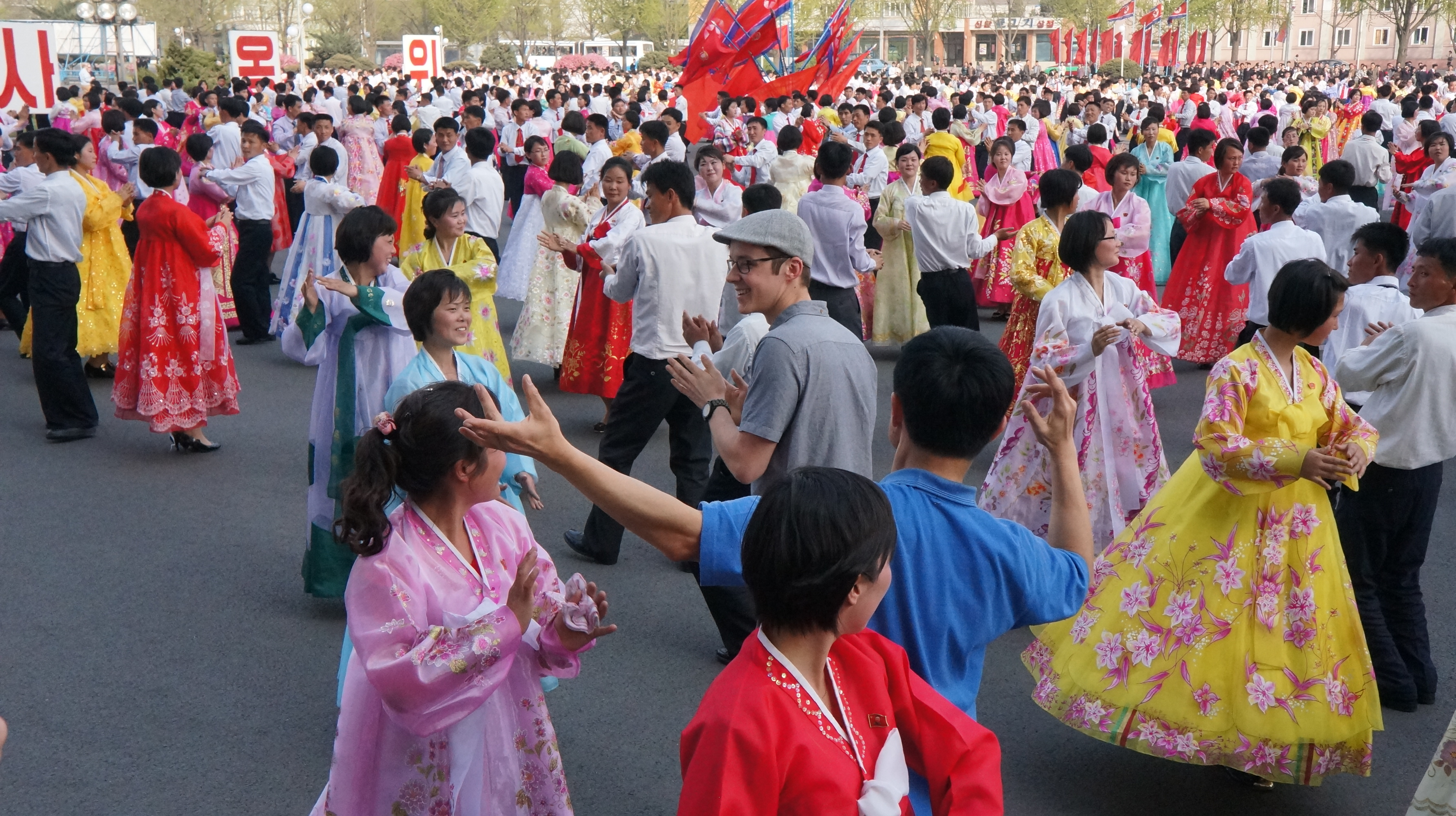 Kim Il Sung Birthday Celebrations April 15, 2014